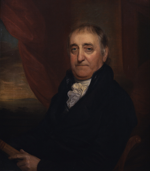 New-York Historical Society OBJECT NUMBER: 1897.1 ARTIST/MAKER: John Wesley Jarvis SITTER: David Gelston DATE: ca. 1810-1815 MEDIUM: Oil on canvas DIMENSIONS: Overall: 34 x 27 1/4 in. ( 86.4 x 69.2 cm )